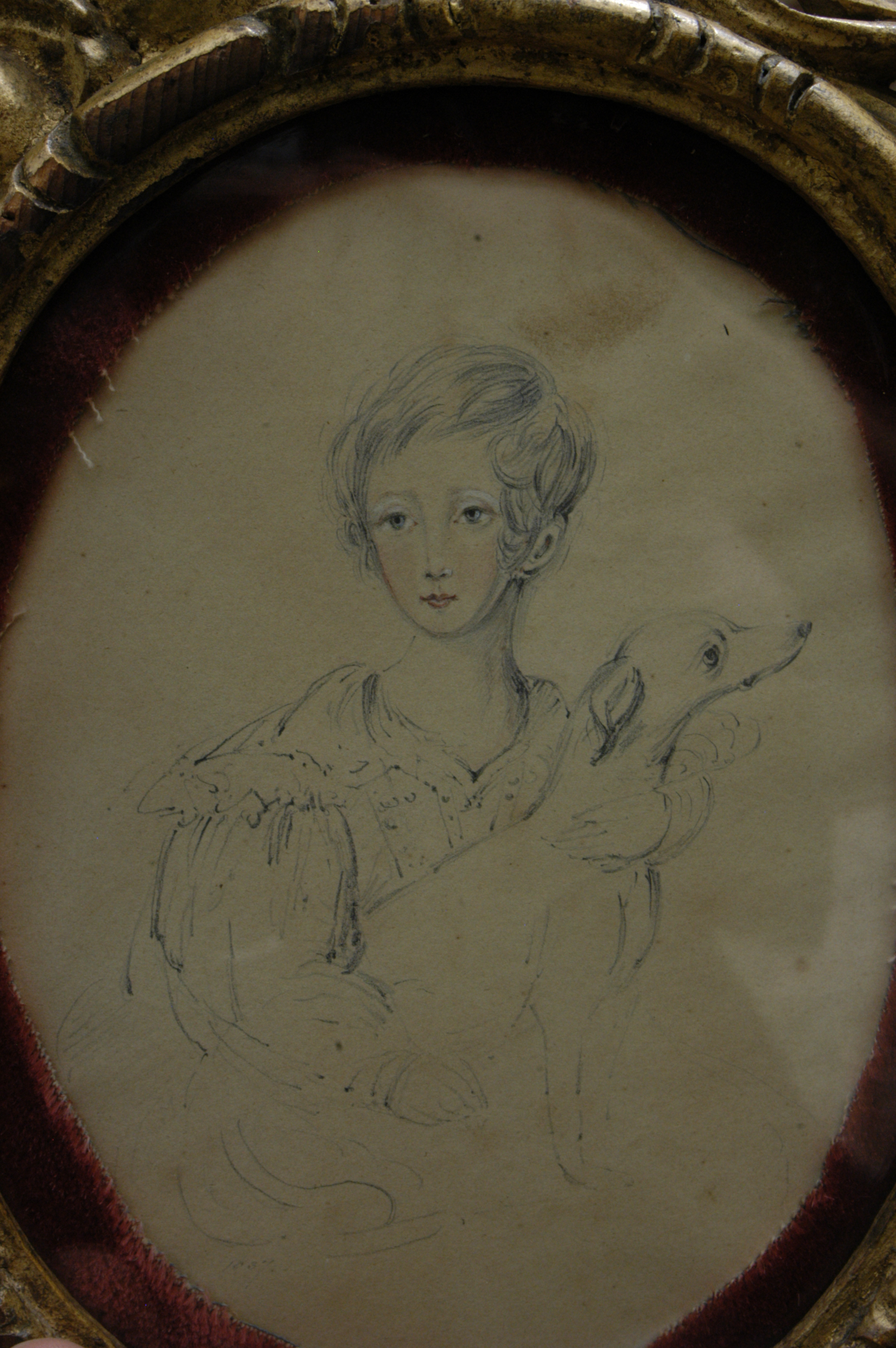 Photograph (by me, R. de Salis, Rodolph (talk) 09:04, 22 August 2015 (UTC)) of a pencil drawing of Henry Jerome Fane de Salis, aged 9, in 1837. (signed 1837).